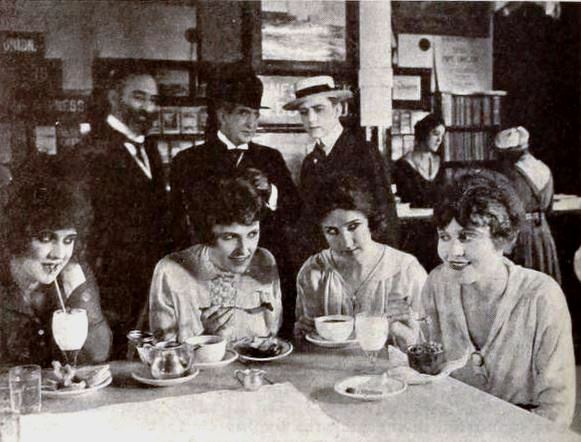 Still from the American drama film The Price of a Good Time (1917) with Mildred Harris and Kenneth Harlan, other actors not identified, on page 32 of the October 6, 1917 Exhibitors Herald.